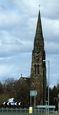 Former Crosshill Queen's Park Church